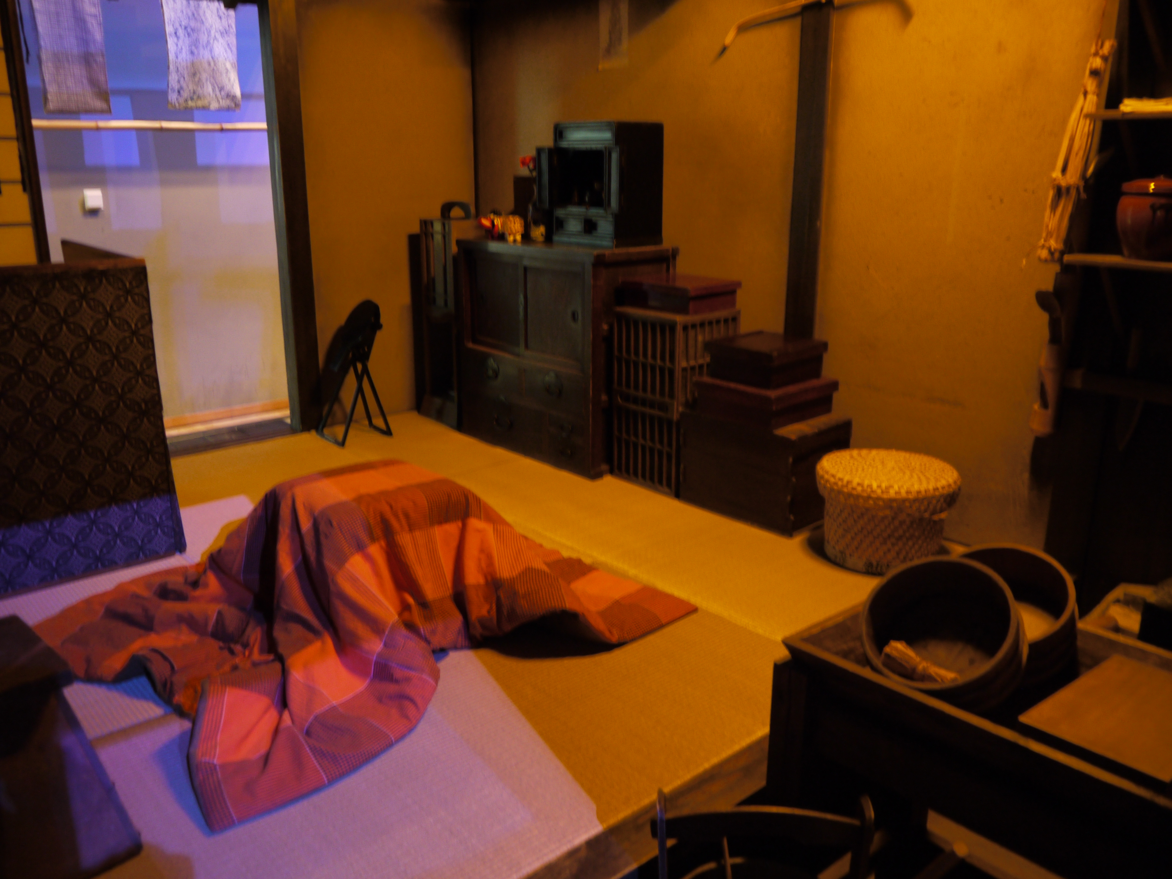 == Licensing: ==